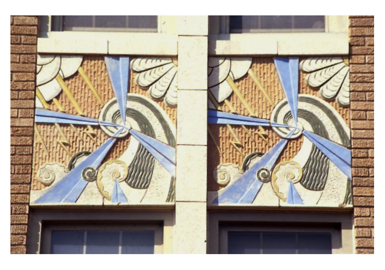 photo by Einar Einarsson Kvaran aka Carptrash 20:06, 23 October 2006 (UTC), taken of the Warren Hotel, [1929] showing art deco styled spandrel panels.